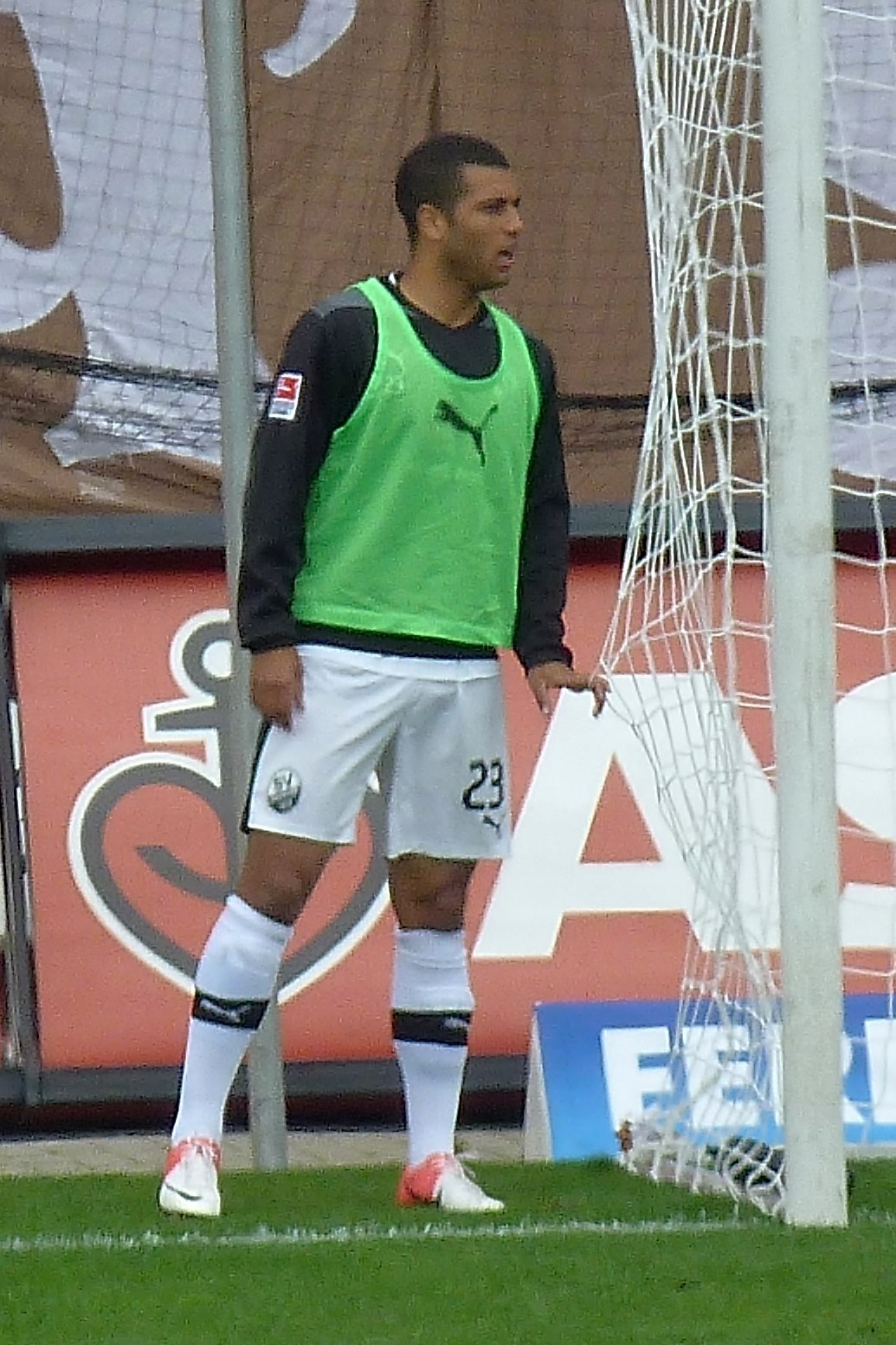 Andrew Wooten as Player from SV Sandhausen